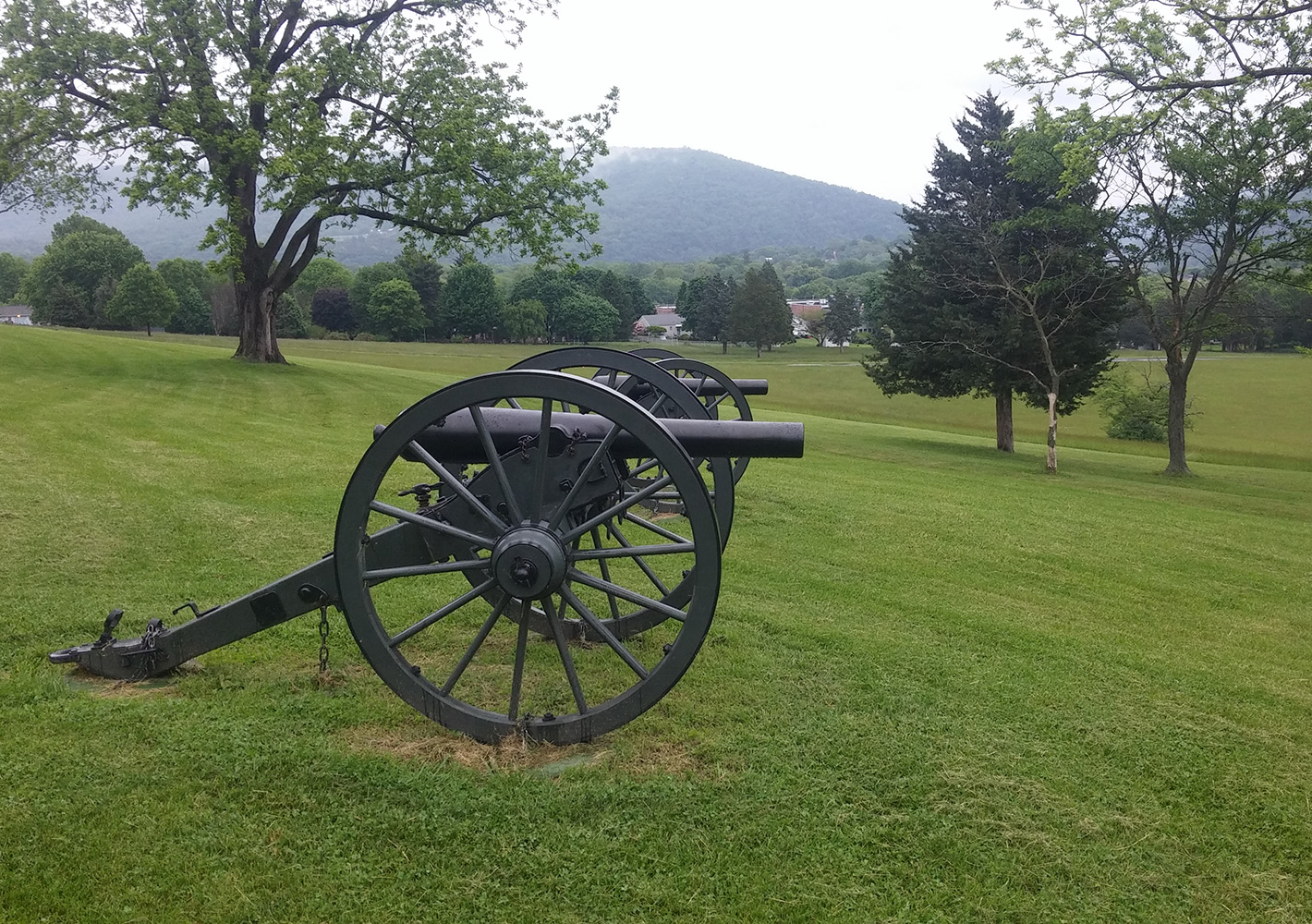 Union guns on Bolivar Heights